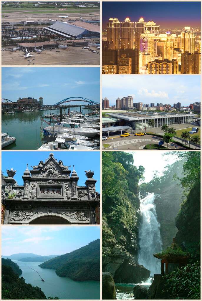 Montage of Taoyuan City, Republic of China. Alternative version of File:Taoyuan City's Cover.png